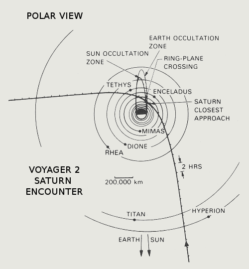 Voyager 2 trajectory in Saturn System, August 24 - 26, 1981.